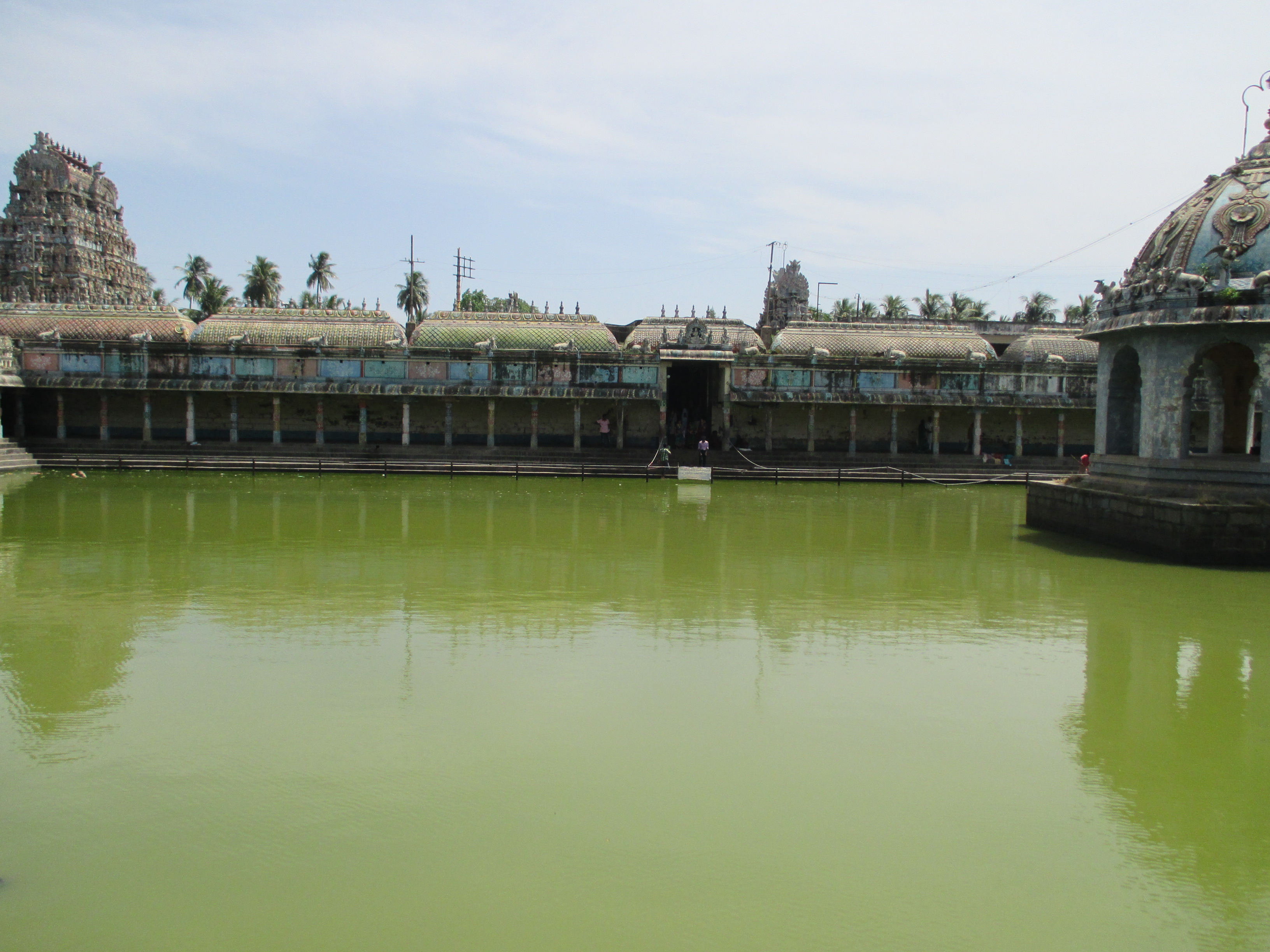 Vaitheeswarankovil1